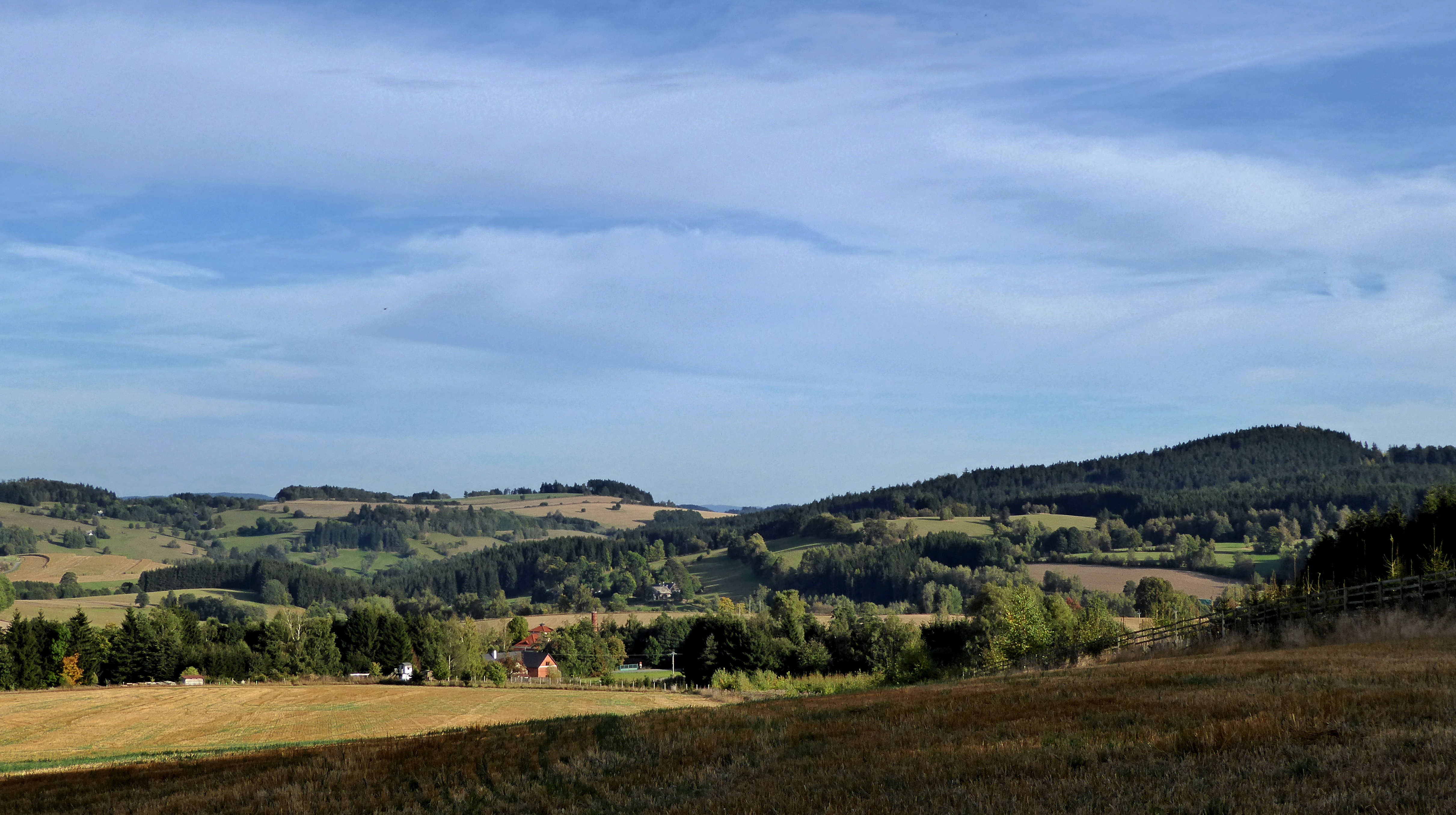 The landscape of the "Hornosvratecká" highlands ( geomorphological whole) near the village "Sněžné", in the geomorphological district "Pohledeckoskalská" vrchovina. Photo location: Czechia, Vysočina Region, municipality Sněžné, "The Highlands of the upper Svratka river" or in the Czech geographic name the "Hornosvratecká" Highlands.